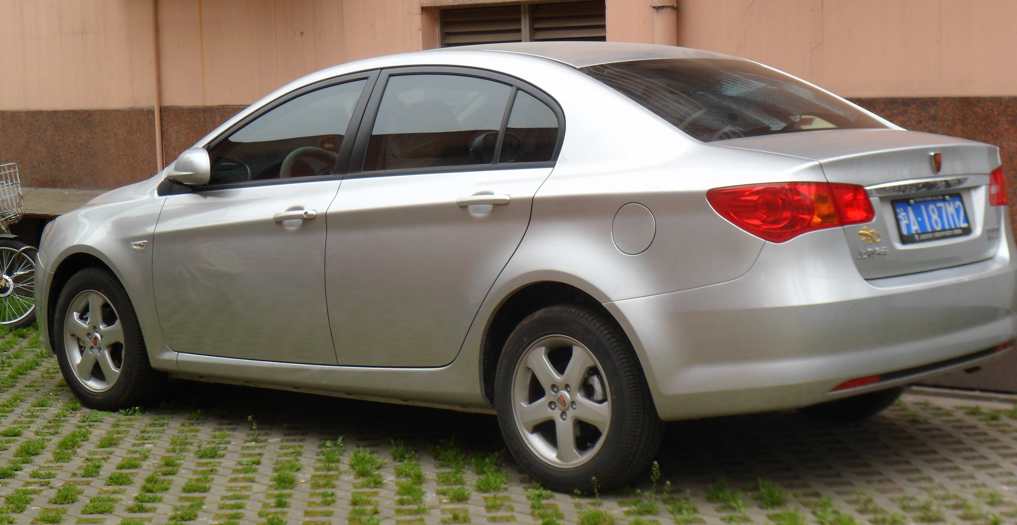 Roewe 350 photographed in Shanghai, China.